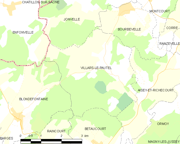 Map of French municipality